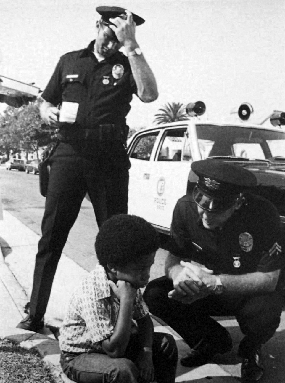 Photo of Kent McCord (Reed) and Martin Milner (Malloy) with Edward Crawford from the television program Adam-12.